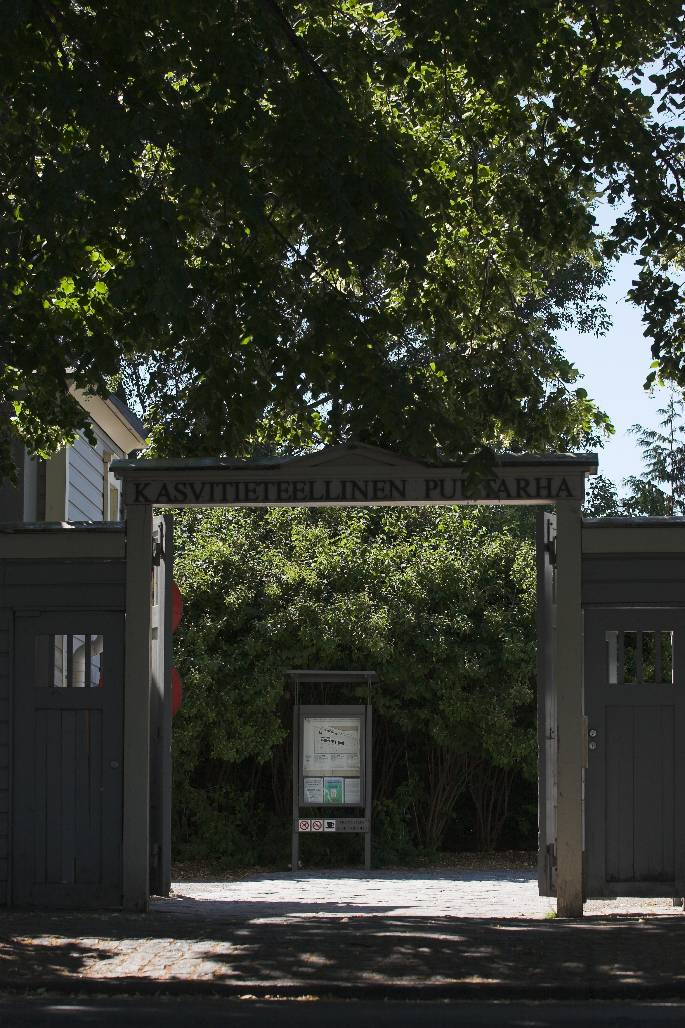 The gate to the gardens of Helsinki University.